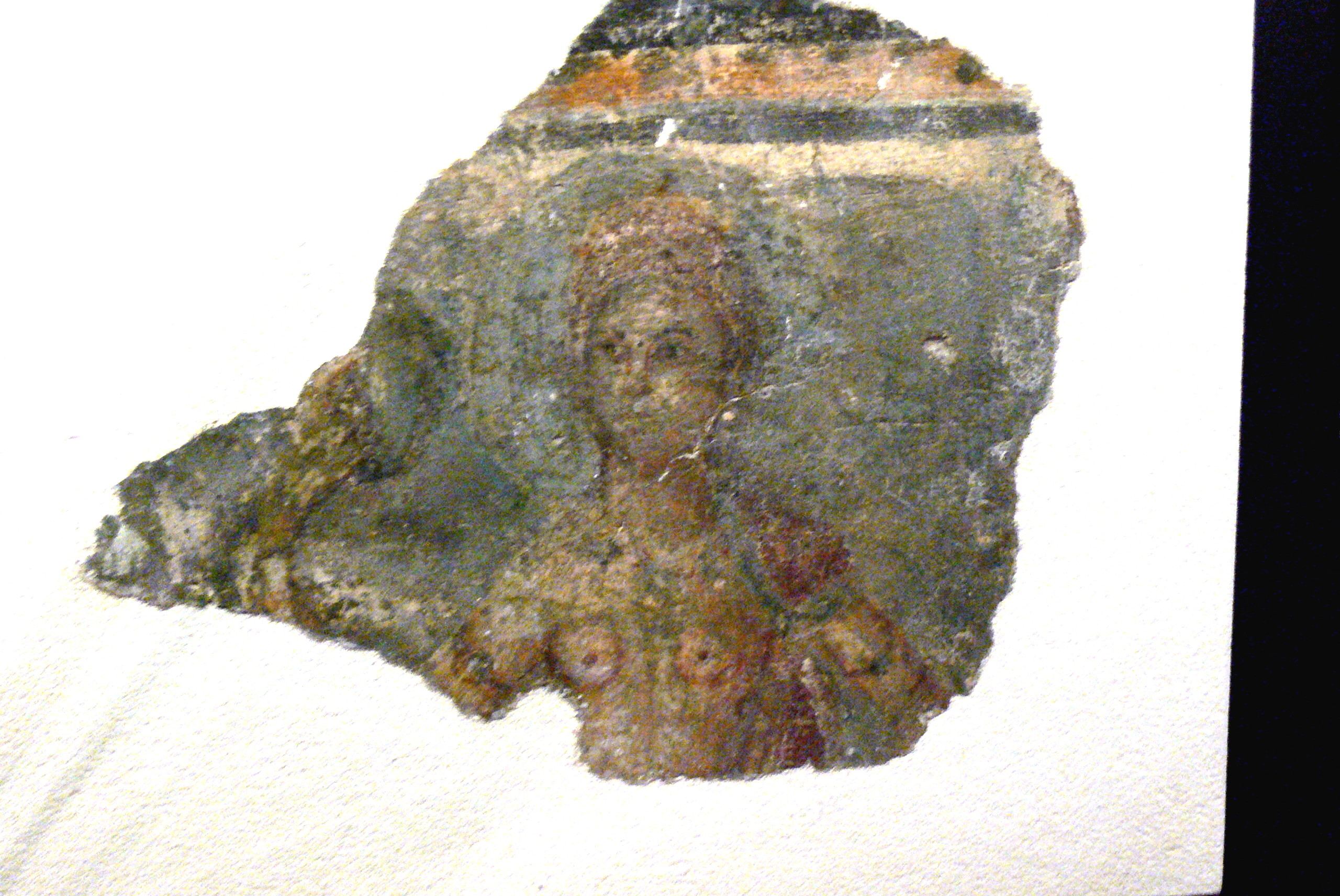 Museum Carnuntinum ( Lower Austria ). Fragment of a wall painting ( 2nd century ): Maenad.